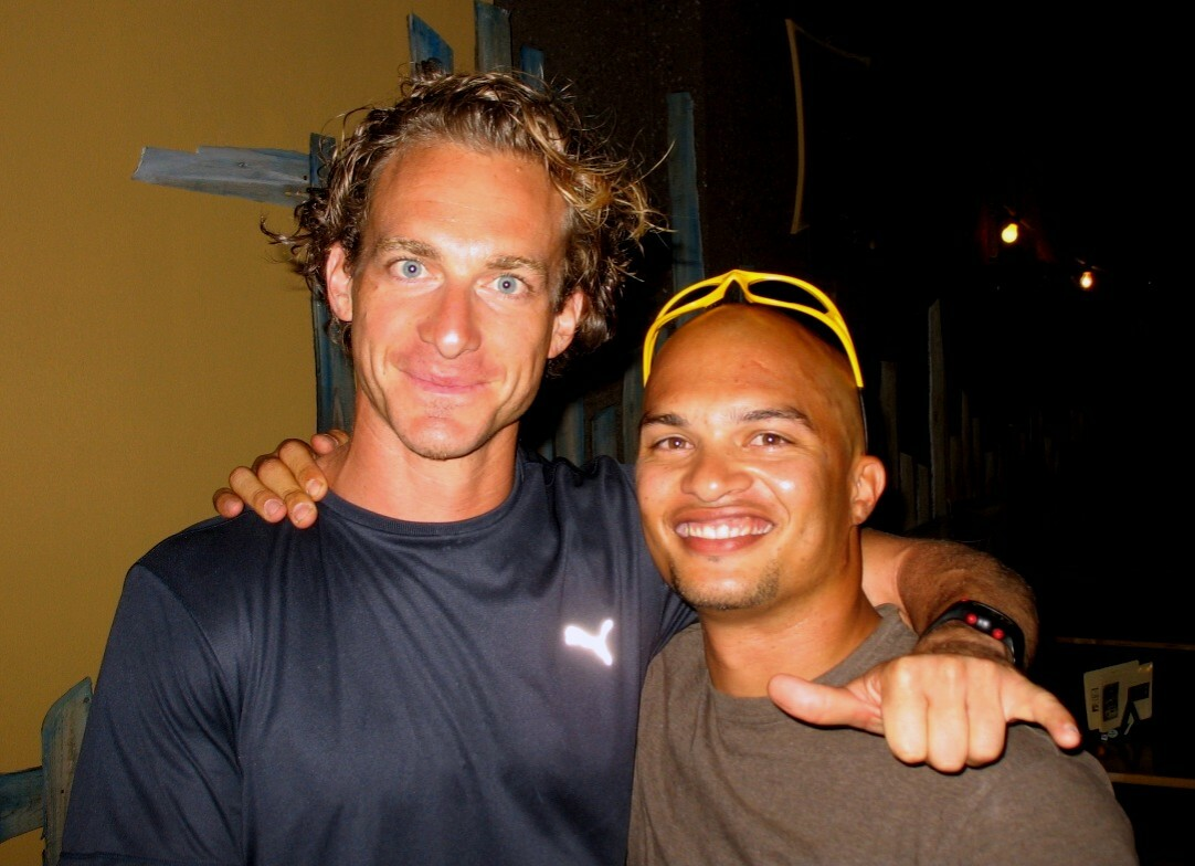 Tim Lobinger (left) and his trainer Chauncey Johnson (right) after the Hoepfner Sports Night Karlsruhe, Germany, 07.26.2006.